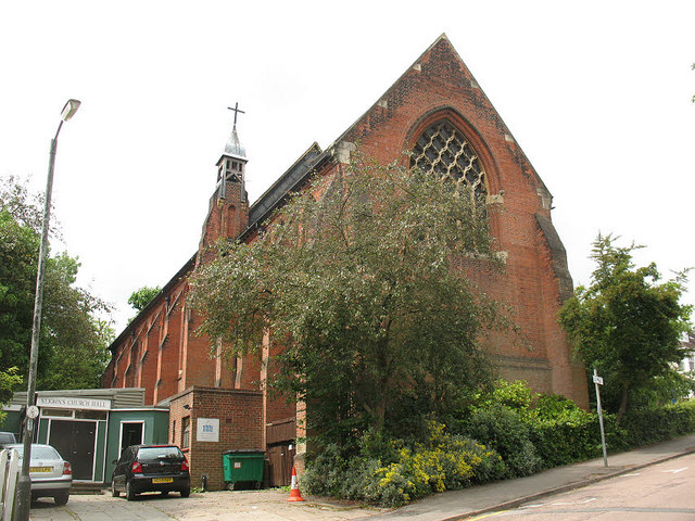 St John the Baptist church and hall, Wimbledon